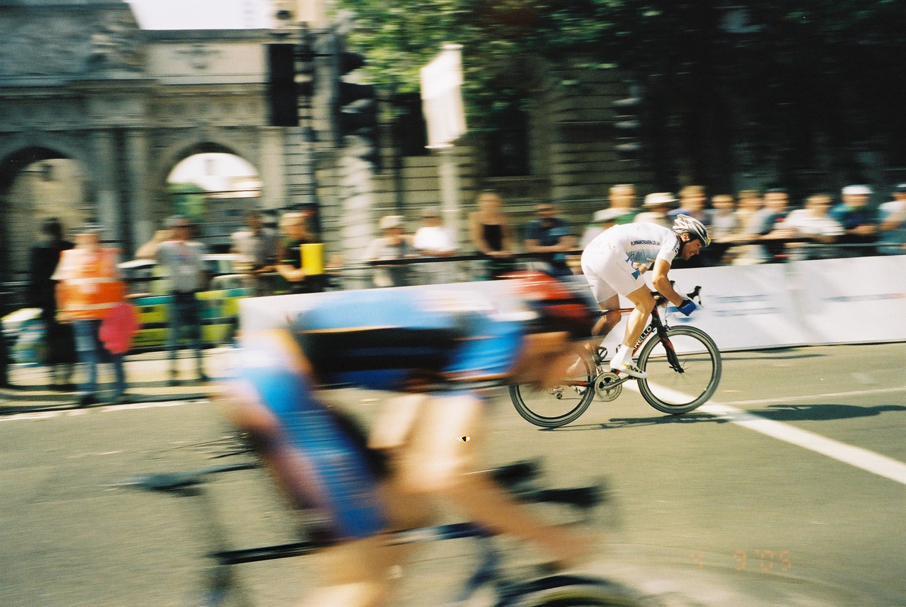 The final stage of the Tour of Britain in Westminster, London 2005.